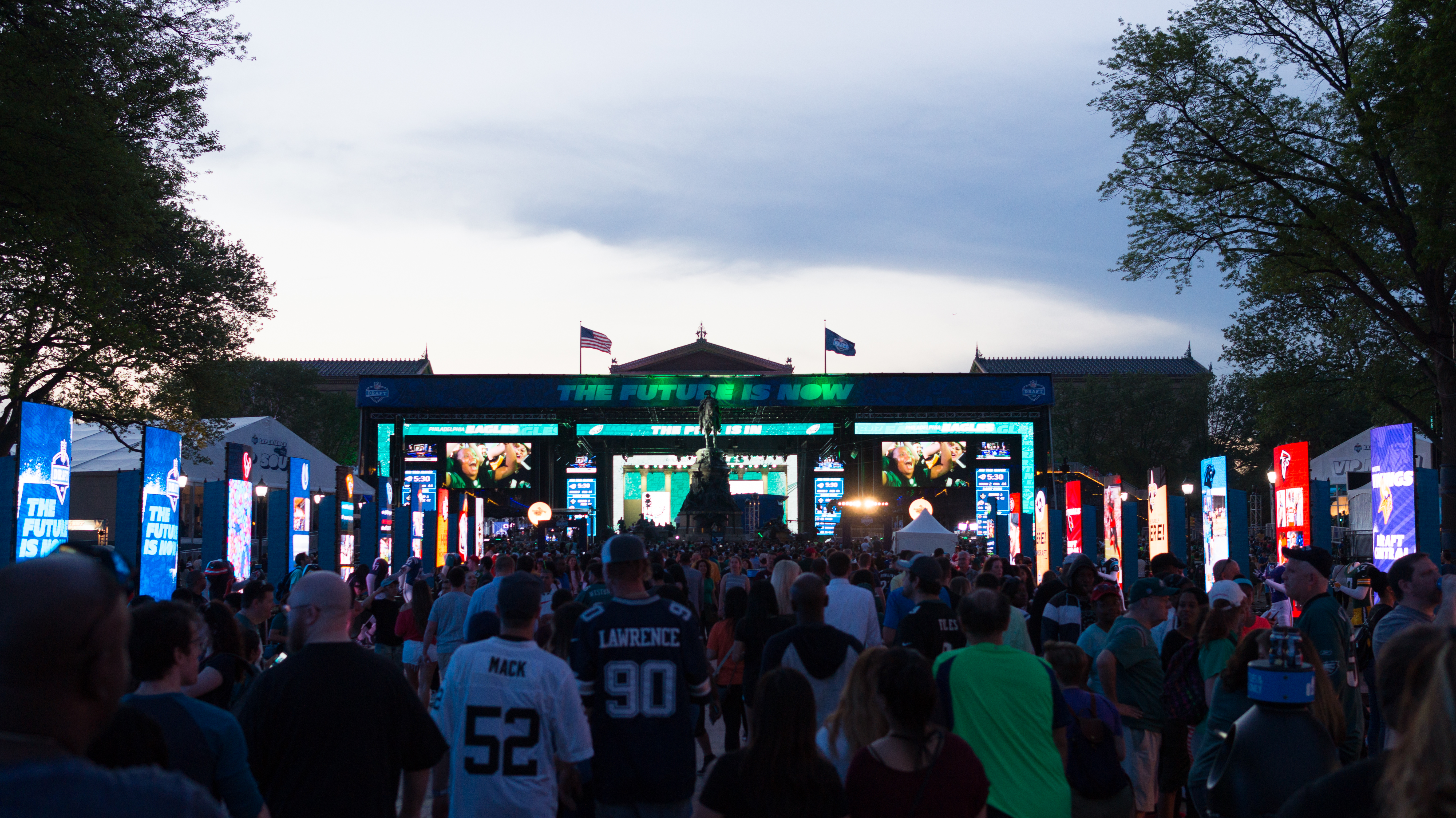 2017 NFL Draft in Philadelphia and their 2nd round pick was on the clock, they eventually drafted Sidney Jones.